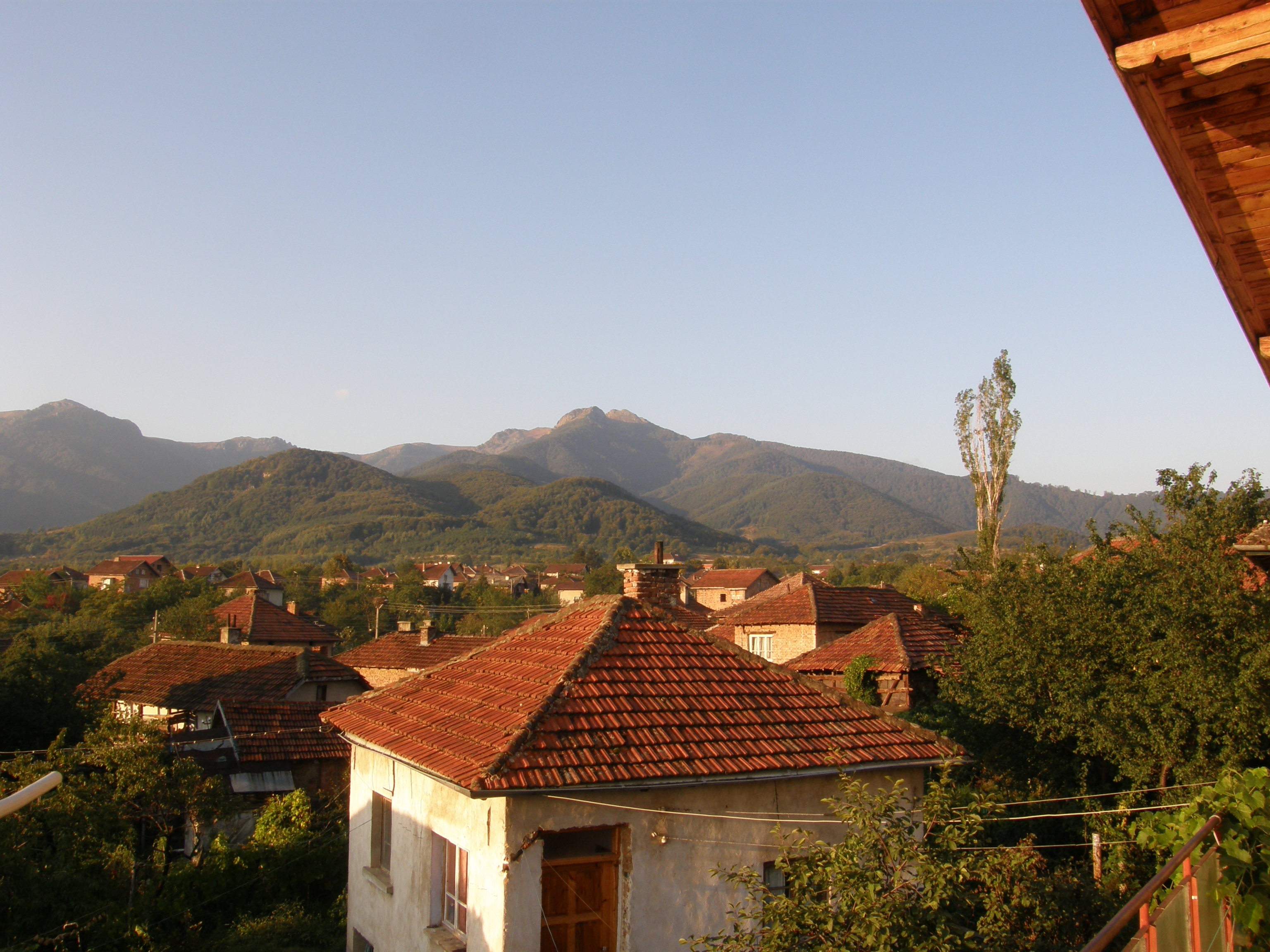 View from Spanchevcy village (Bulgaria) toward peak Todoriny Kukly (Balkan Mountains)